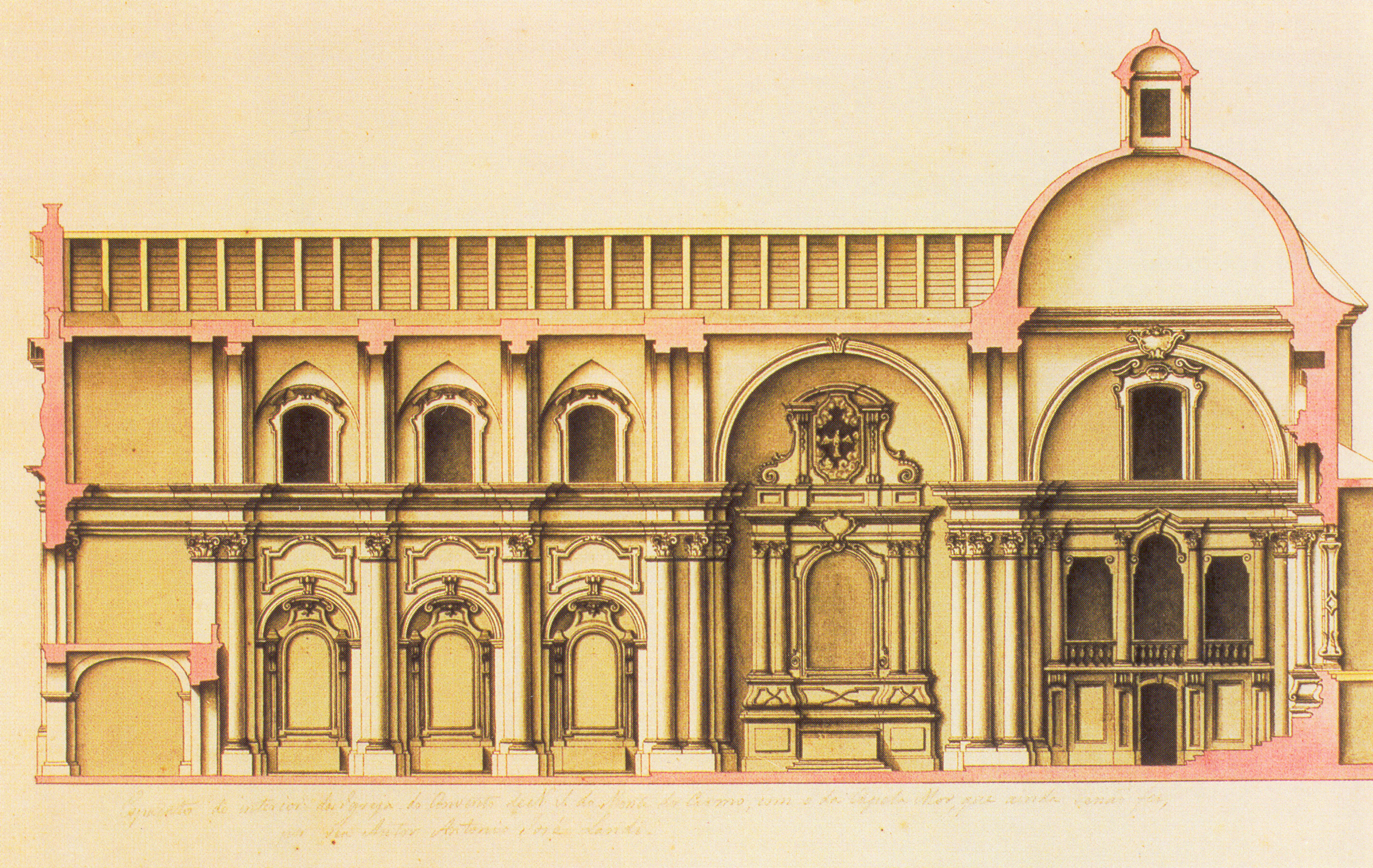 Desenho à pena, aquarelado. Rio de Janeiro, B.M.N., Colecção Alexandre Rodrigues Ferreira - Prospectos de cidades, villas, povoações, Edefícios, Rios, Cachoeiras, Serras, etc., da Expedição Philosophica do Para, Rio Negro, Mato Grosso e Cuyaba, copiados no Real Jardim Botânico